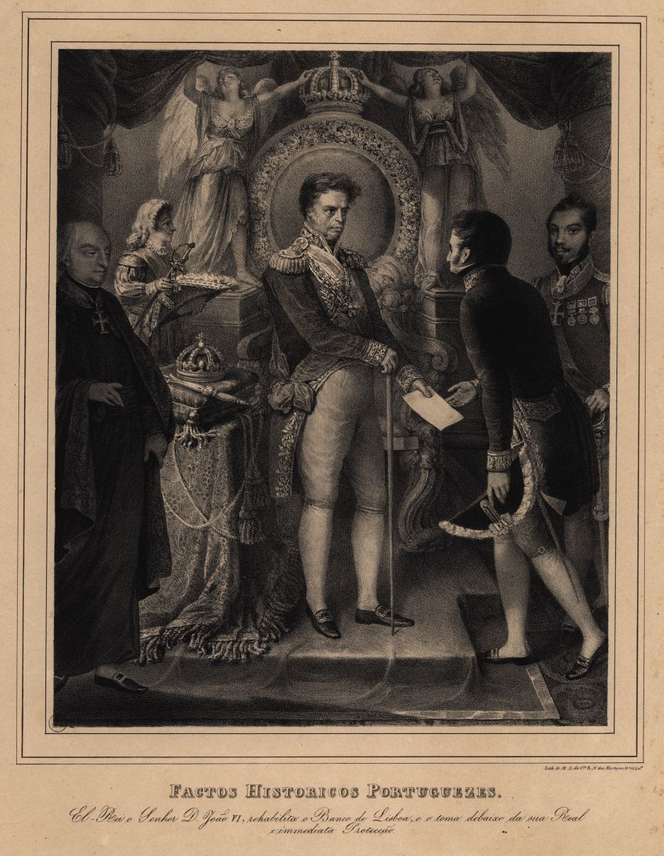 Allegory of the presentation to king João VI of Portugal of the Banco de Lisboa founding documents.